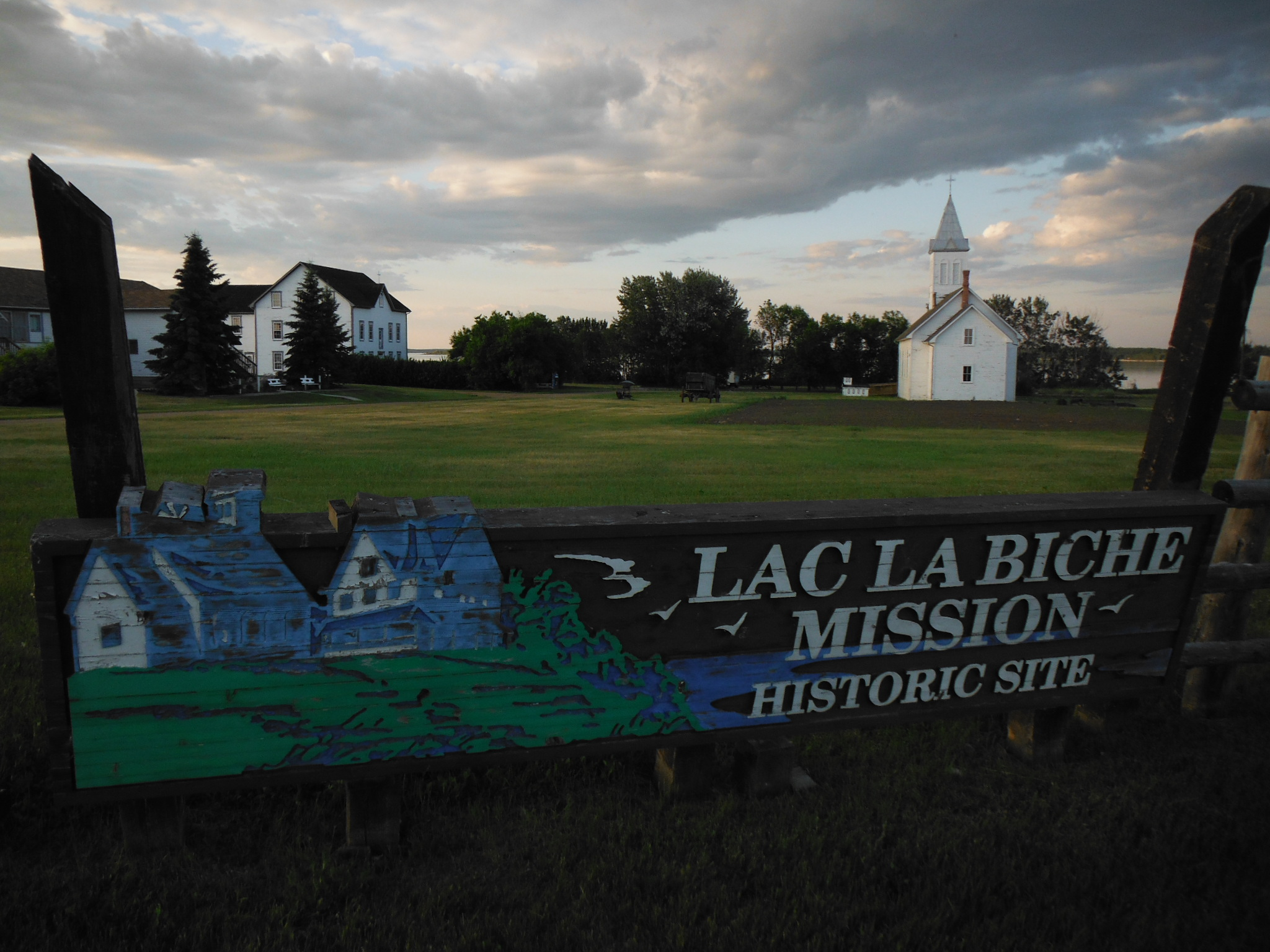 A view of Lac La Biche Mission National Historic Site of Canada, on the shore of Lac La Biche, Alberta